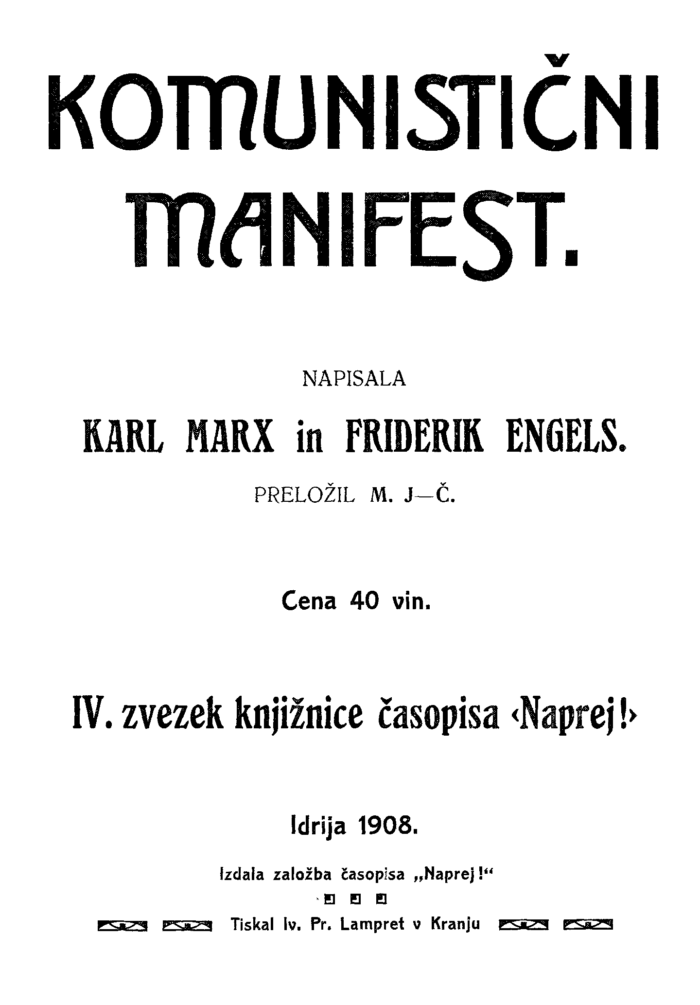 Title page of the Slovene translation of the Communist Manifesto, published in 1908.